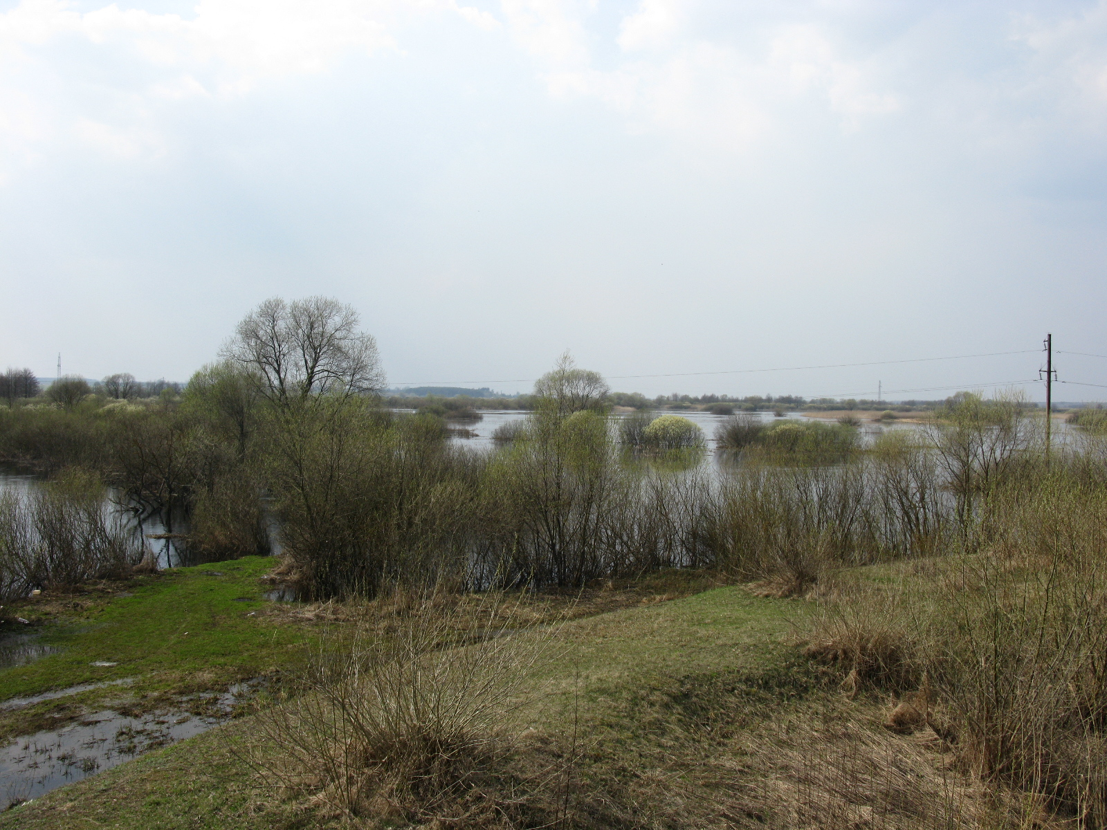 Spring flood of Yaselda river.